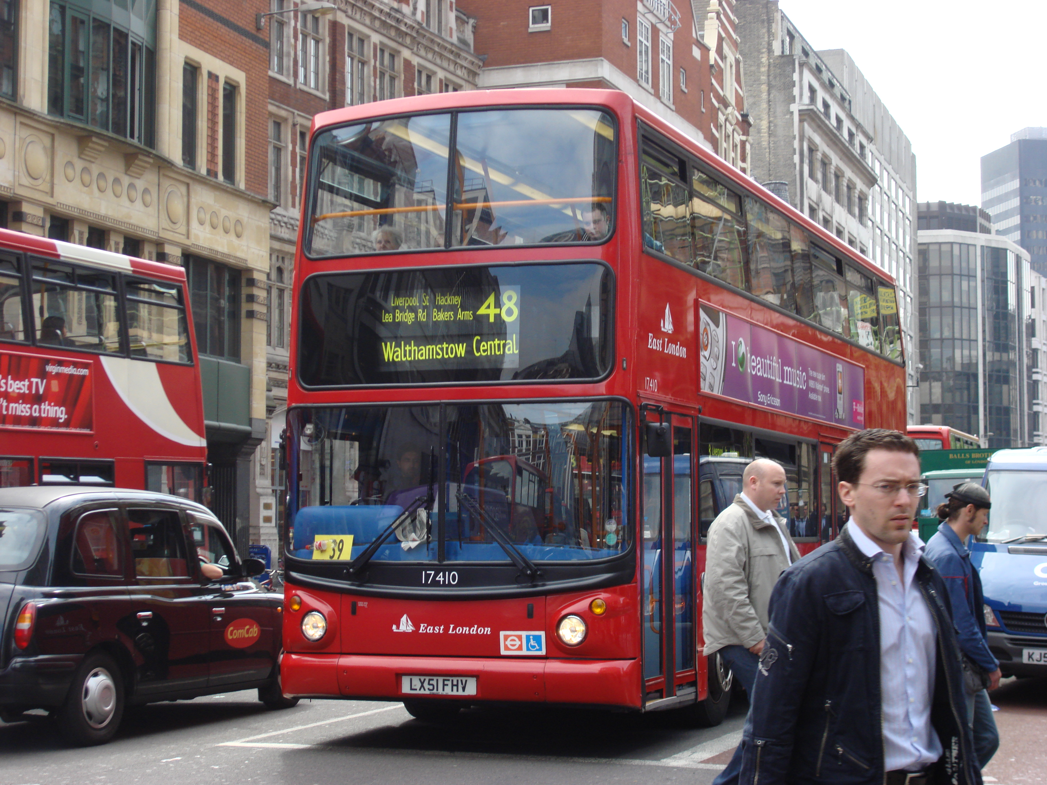 A bus on London Buses route 48